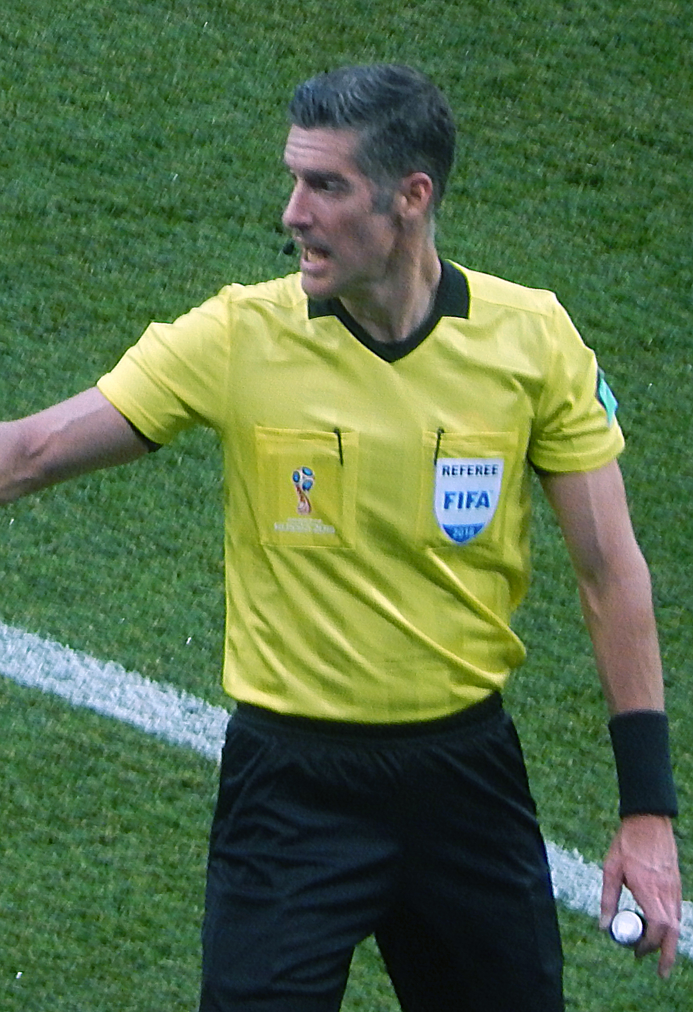 FIFA World Cup 2018, Group D, Nigeria vs. Iceland